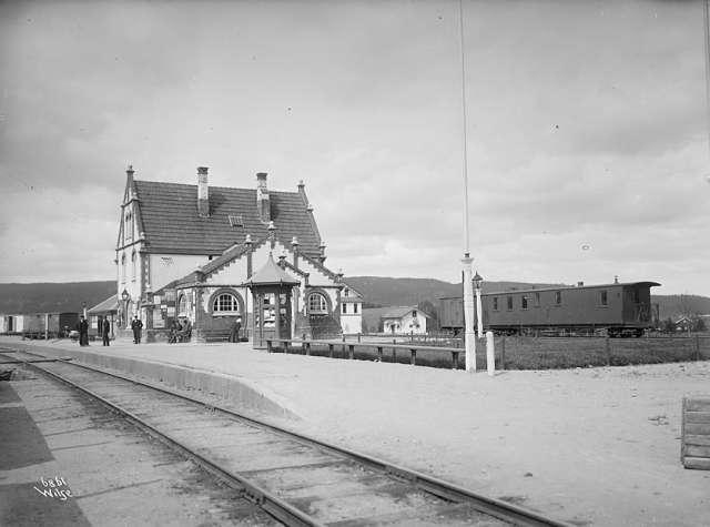 Sørumsand railway station on Kongsvingerbanen, and terminal station of Urskog-Hølandsbanen, in Sørum, Norway.